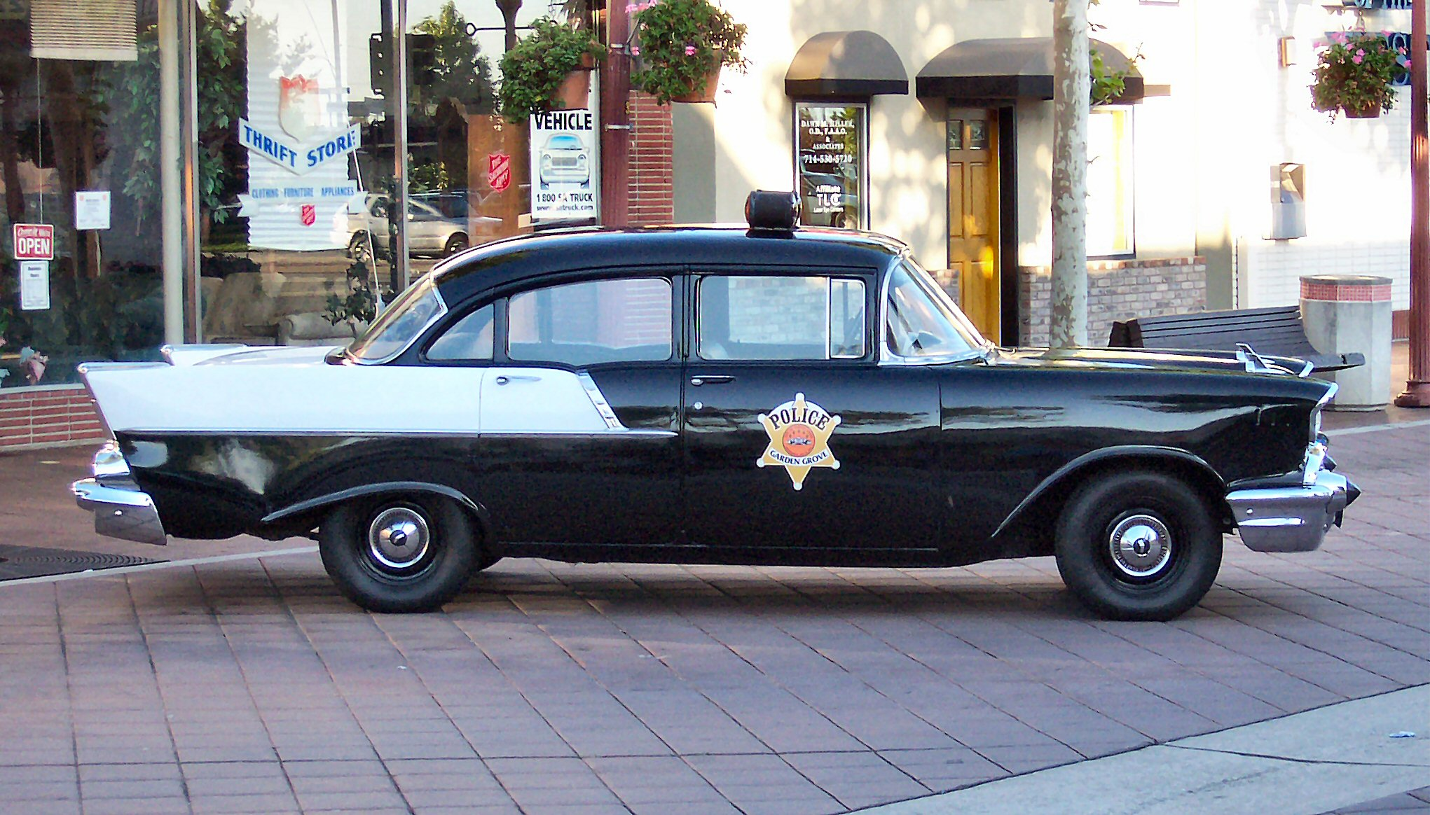 1957 Chevrolet police car. One-Fifty Series 1500, Model 1503 4-Door Sedan. The Series One-Fifty retained the 1956 side trim.